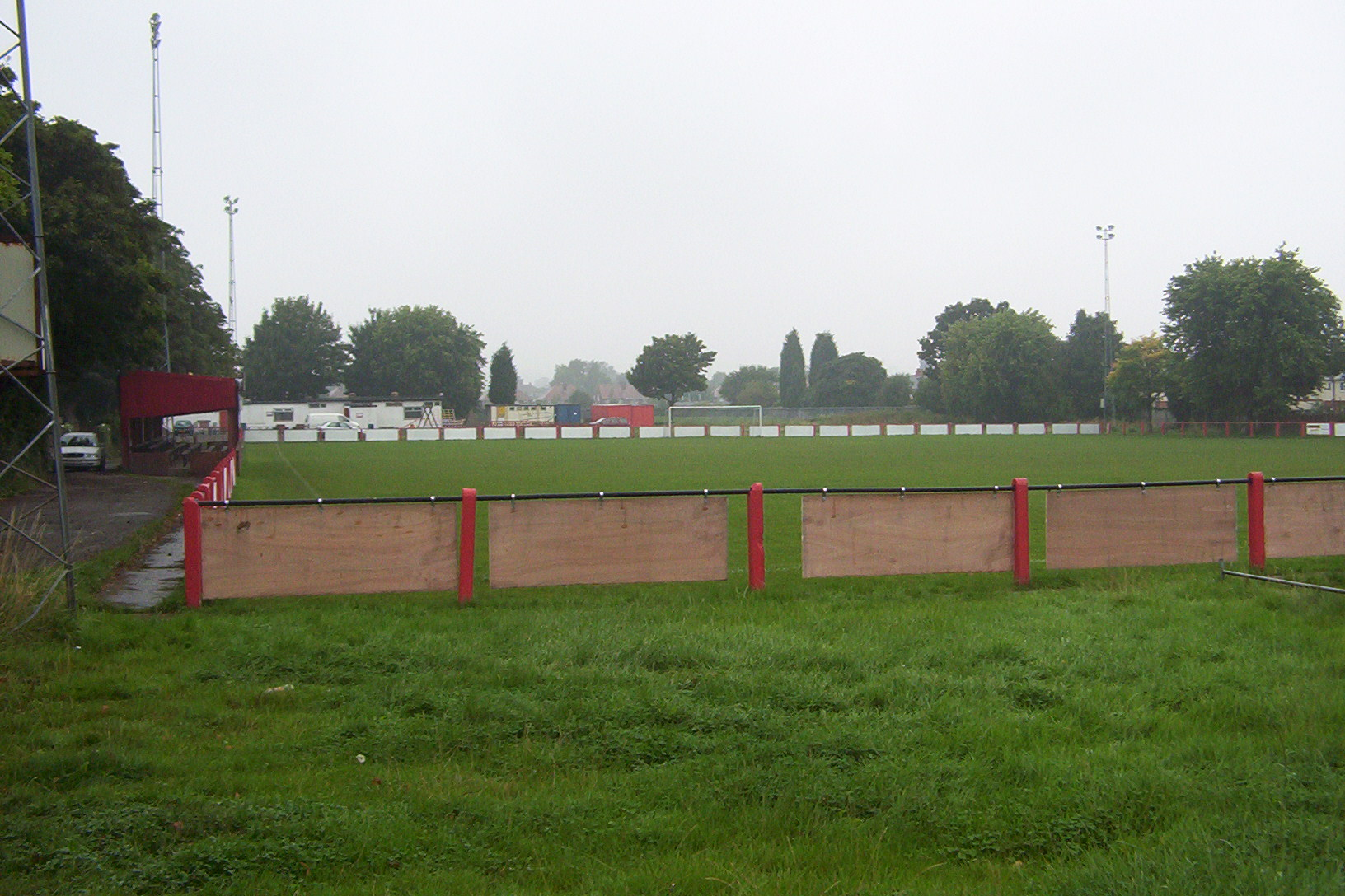 The Cottage Ground, home of Wednesfield F.C. and Heath Town Rangers F.C., photographed by myself on August 31, 2008